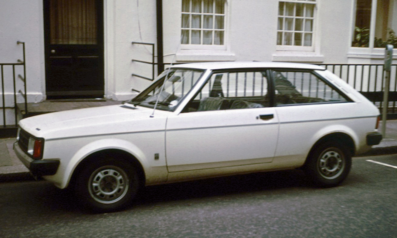 Chrysler Sunbeam in profile